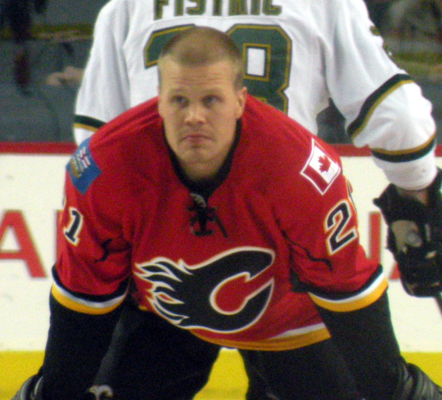 Calgary Flames forward Olli Jokinen during warm-up prior to a game against the Dallas Stars in Calgary.